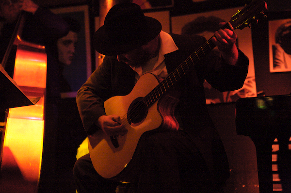 Clifton Hyde with Mustapick Deep Baritone guitar: brooklyn, NY 2007